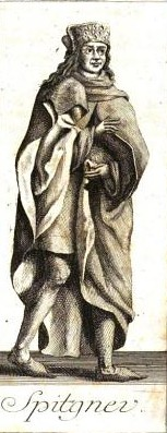 Spytihnev I, Duke of Bohemia